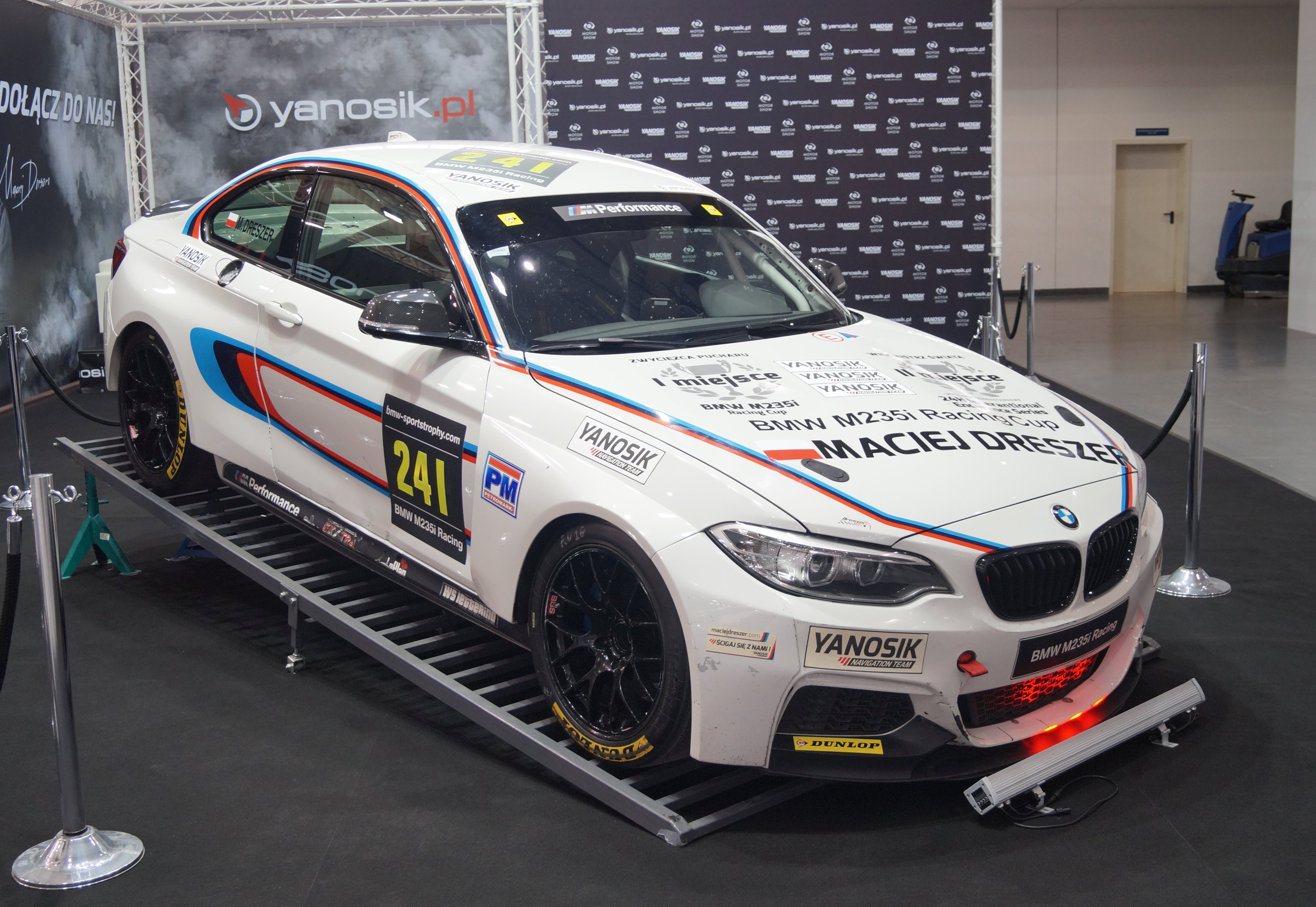 The making of this document was supported by Wikimedia Polska Association, within Wikigrant no. WG 2016-10. English | polski | +/− BMW M235i Macieja Dreszera na Motor Show Poznań 2016